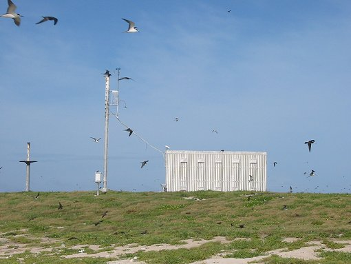 Solar-powered weather station at Cato Island, in the Coral Sea Islands near Australia